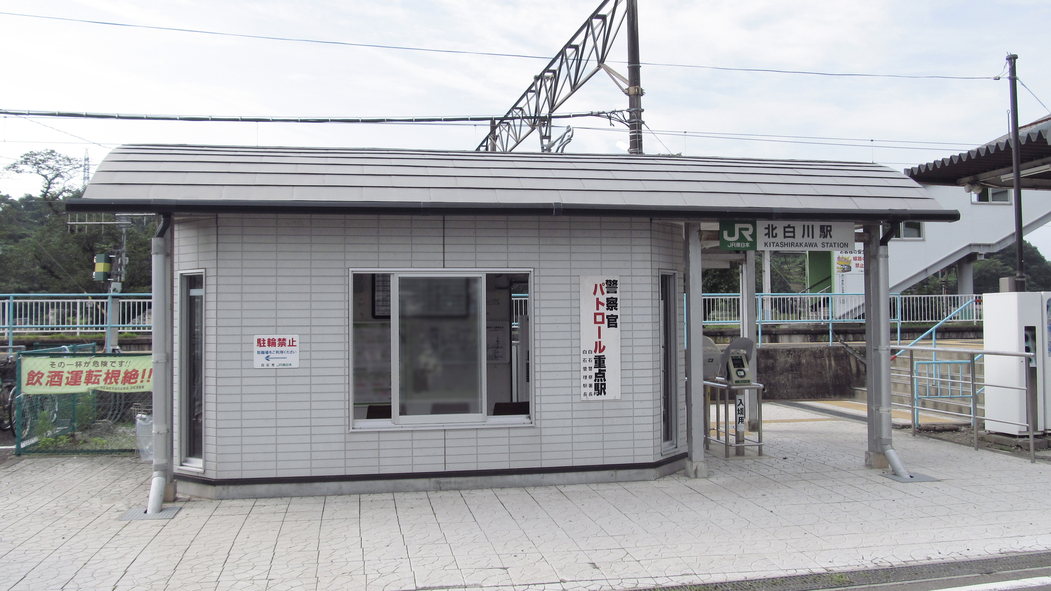 The entrance to Kita-Shirakawa Station on the Tōhoku Main Line in Shiroishi city, Miyagi prefecture, Japan